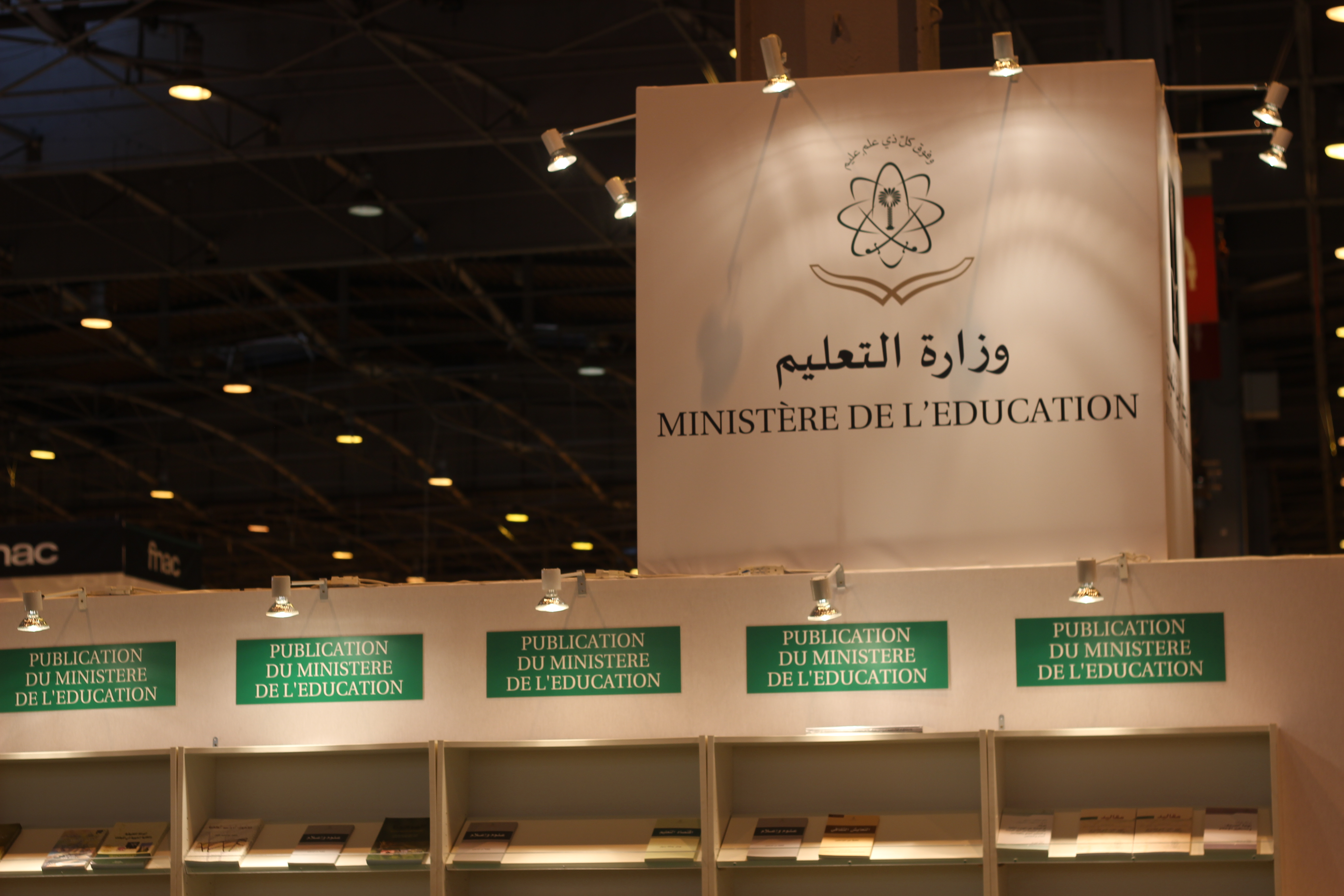 2015 Paris Book Fair, from 20 to 23 March 2015, Paris expo Porte de Versailles.